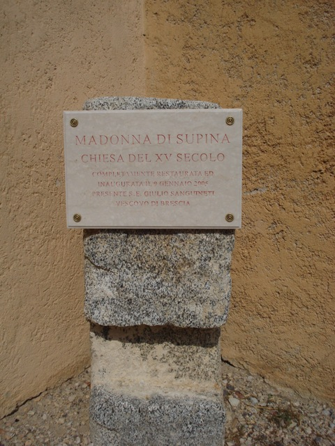 Memorial Stele of the last renovation works concluded in 2005